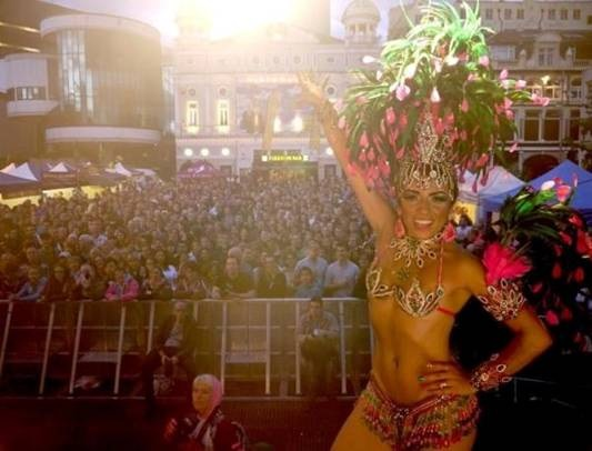 A picture of Brazilica Festival in Liverpool city centre